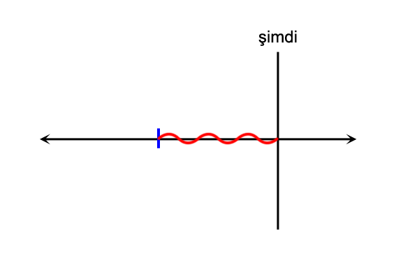 Present continuous tense in Turkish. Example: "Erkek kardeşim odasında uyuyor. / My brother is sleeping in his room."